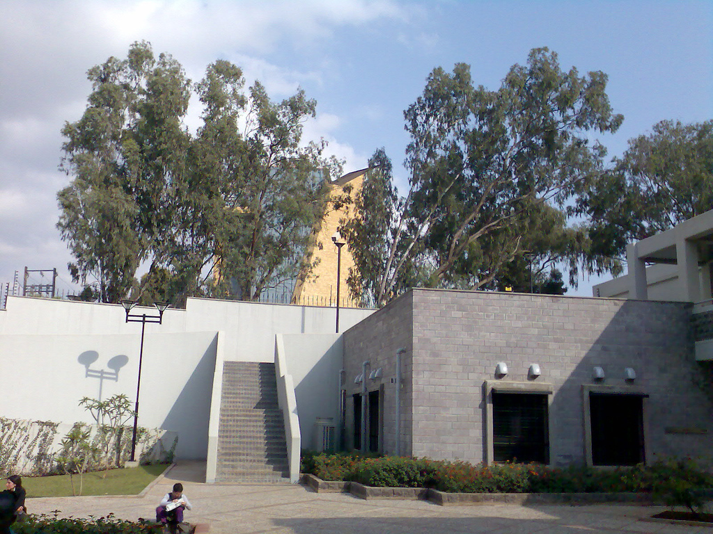 From the inside. Handsome bunker. They were showing Takeshi Kitano movies for free. A Scene by the Sea, and Kids Return.